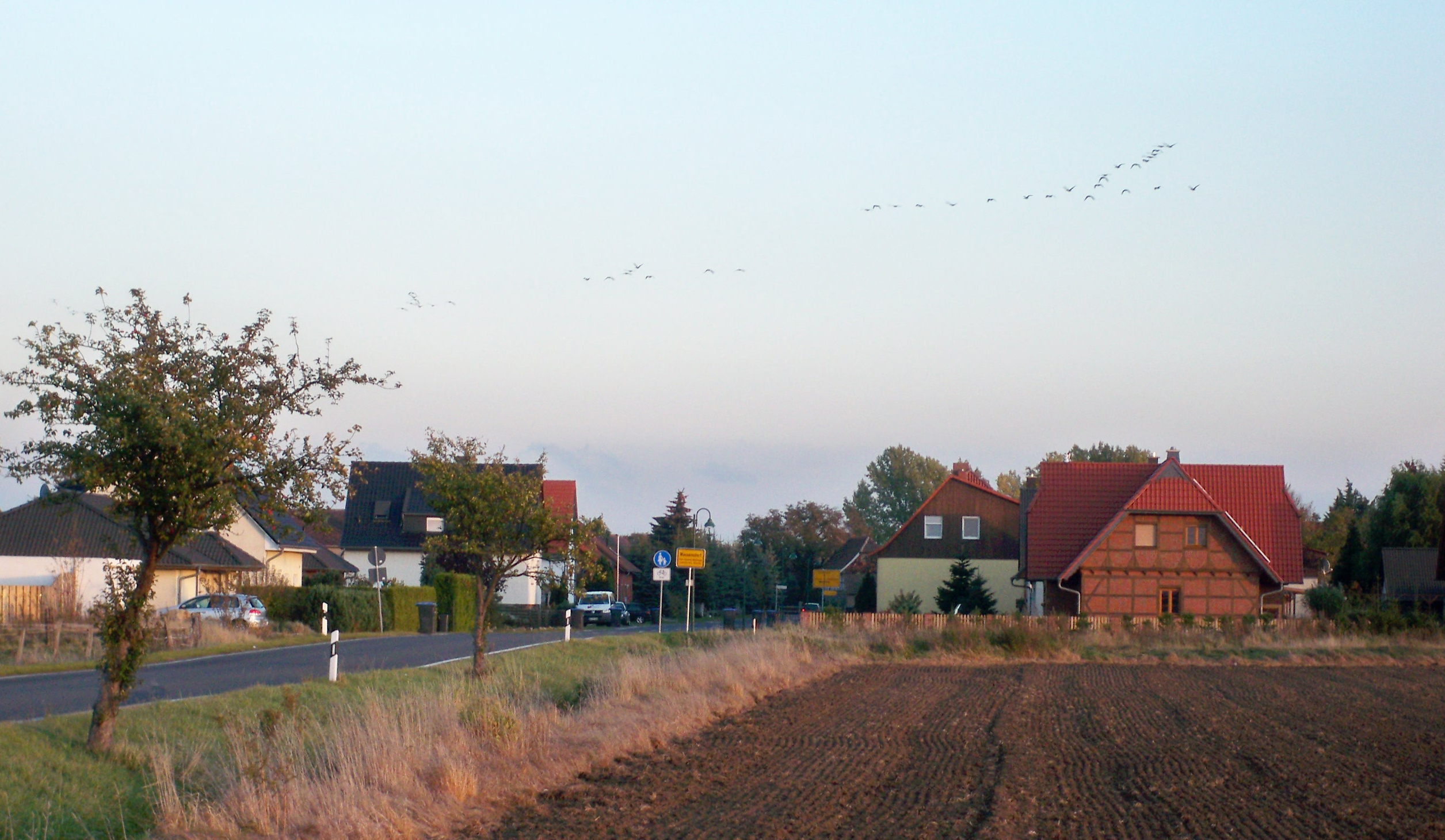 Wassensdorf, Oebisfelde-Weferlingen, Saxony-Anhalt, view from west